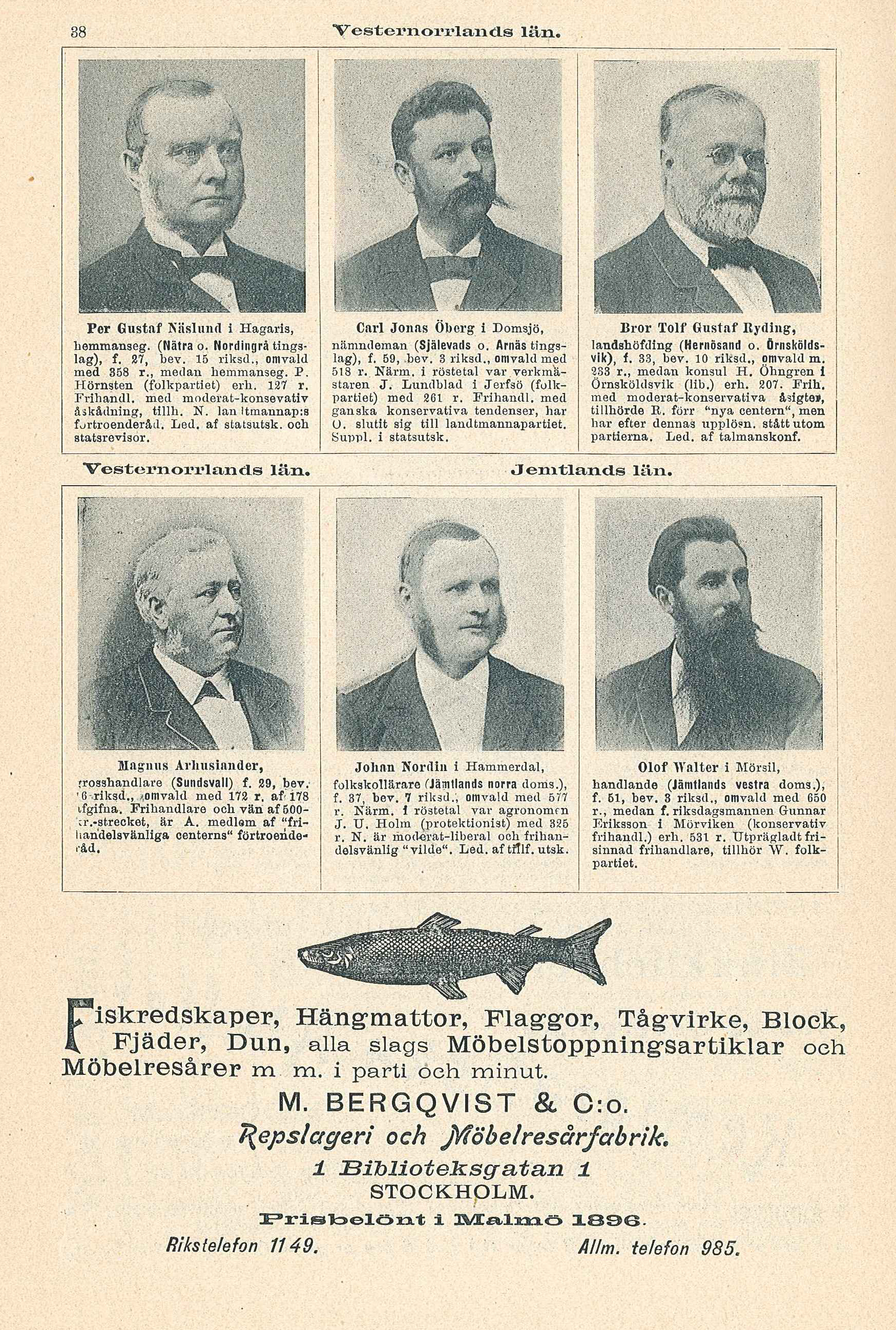 Page 38 of an album featuring portraits of all the members of the second chamber of the Swedish parliament (Sveriges riksdag) elected in 1897. This page featuring parts of the members representing the counties of Västernorrland and Jämtland.